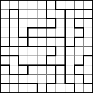 Unsolved LITS sample puzzle.